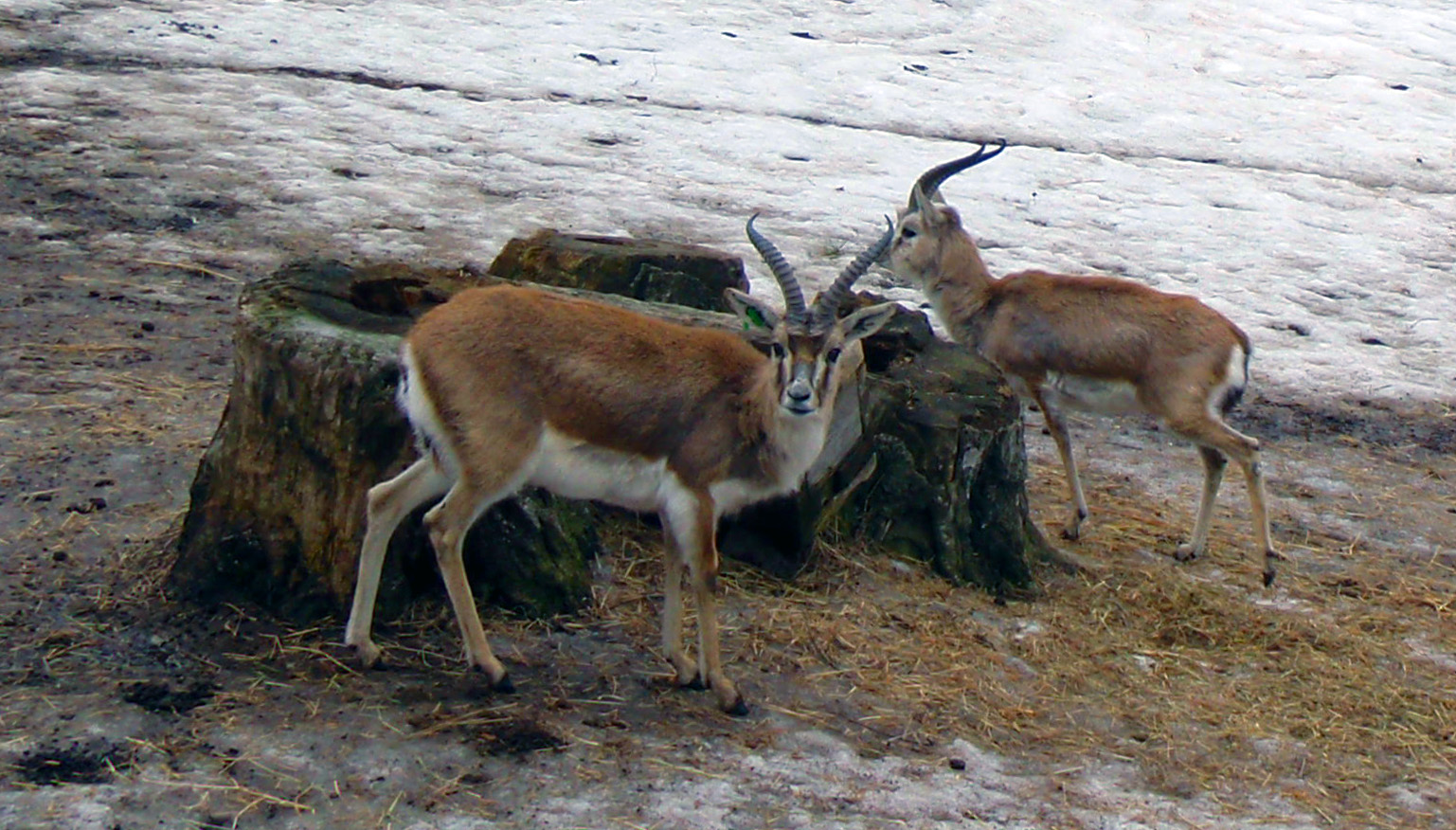 Goitered Gazelle (Gazella subgutturosa) at Korkeasaari Zoo.